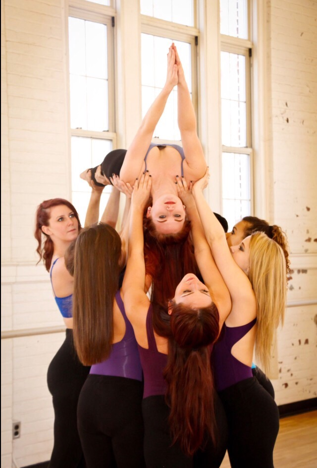 dance students at the University of North Carolina at Greensboro